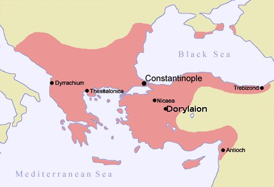 Byzantine Empire in 1180 under Empire Manuel.This map has more details than Image:Manuel'sEmpire.png.